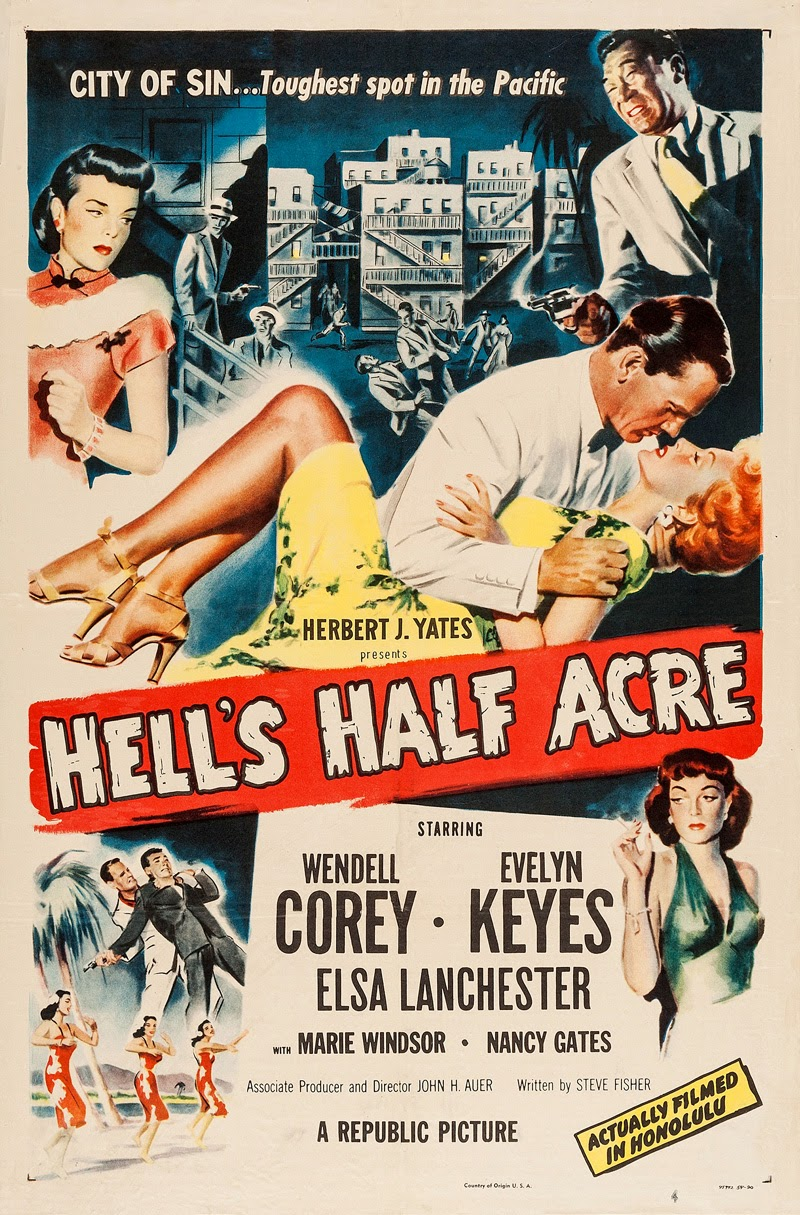 Poster for the 1954 film Hell's Half Acre. The item has no copyright markings on it as can be seen in the links above. At bottom is Country of origin USA, a printers' mark and 95792 54-90. These look to be associated with the printing of the poster.